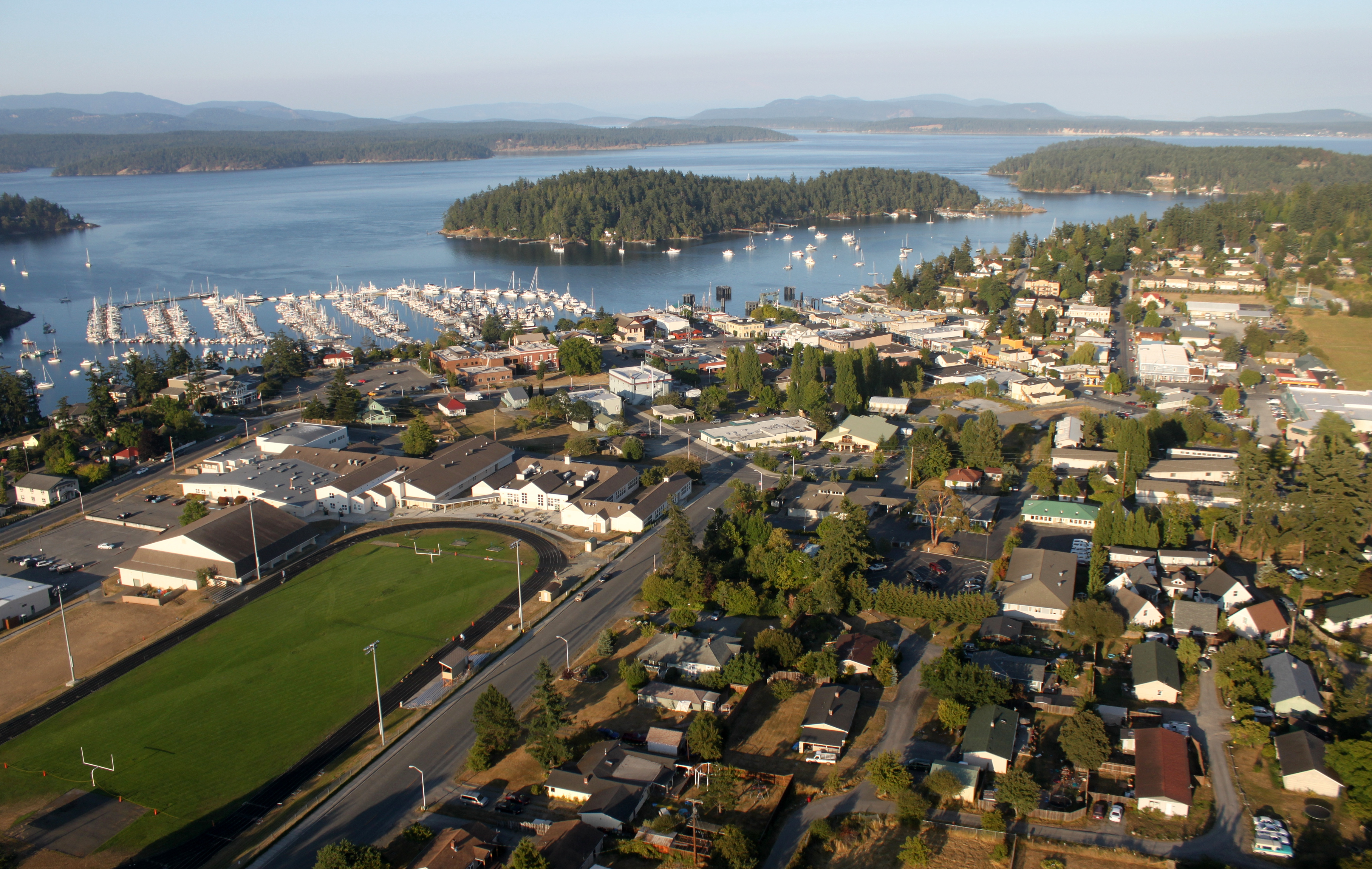 An aerial view of Friday Harbor, on San Juan Island, Washington. Shot from about 400' AGL, looking east.